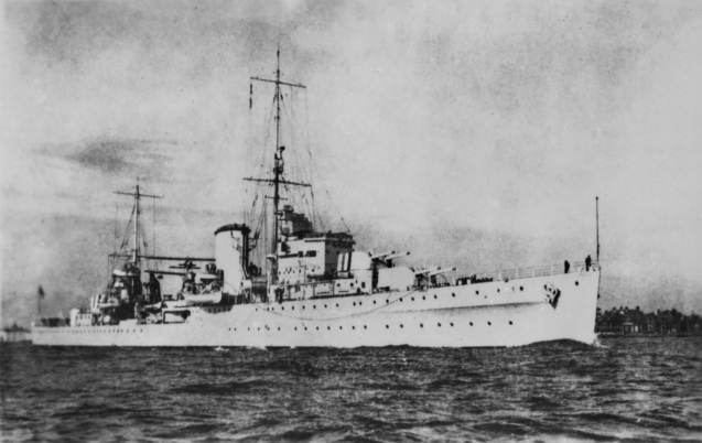 View of Leander class Light Cruiser, HMNZS Achilles who served with the British Home Fleet as HMS Achilles until she was transferred to the New Zealand Division on 24 March 1936. She took part in the Battle of the River Plate against the German pocket ship Panzerschiffe Admiral where 4 of her crew were killed. HMNZS was decommissioned on 17 September 1946 and returned to the Royal Navy. She was sold to India on 5 July 1948, and renamed Delhi before being decommissioned by the Indian Army on 30 June 1978.